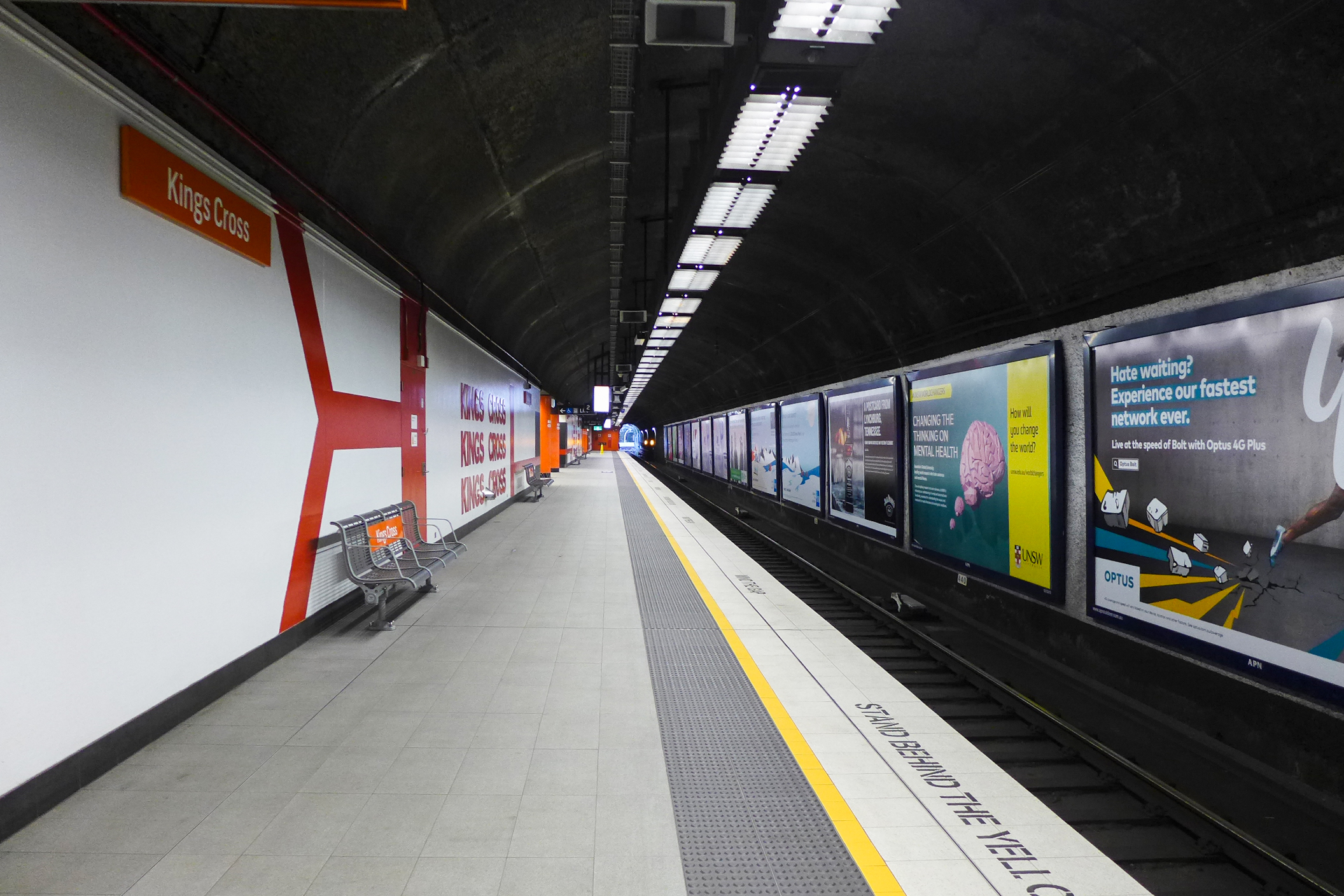 Kings Cross railway station, Sydney